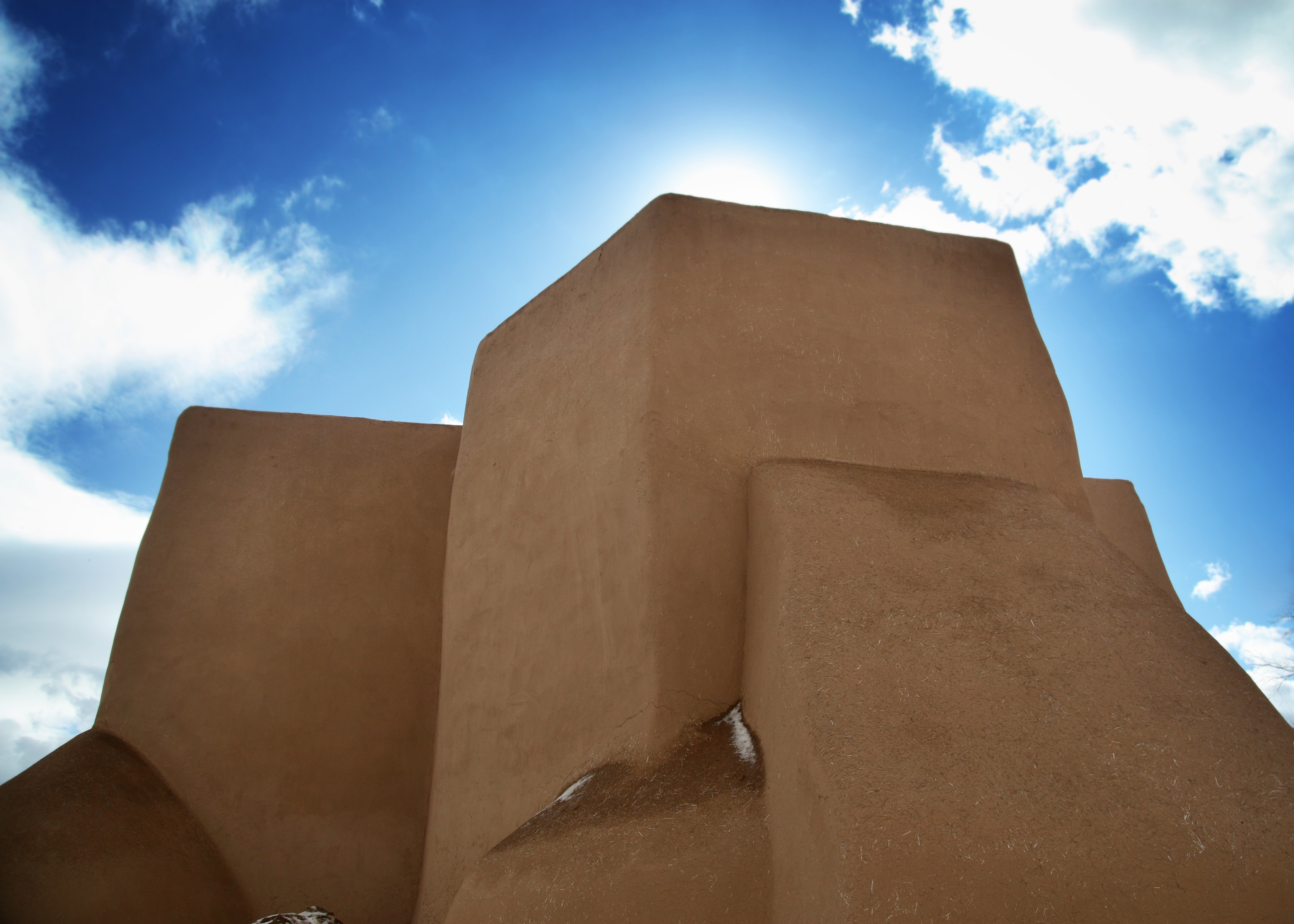 This is my homage to Georgia O'Keeffe ( And maybe Reddirtrose too). I was always fond of her paintings of this church. To me this is one of those quintessential images of New Mexico. It is ironic that the back of the church is photographed and painted much more often than the front.